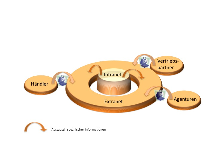 The picture shows the primary function of intranet and extranet and in which way they´re working together.